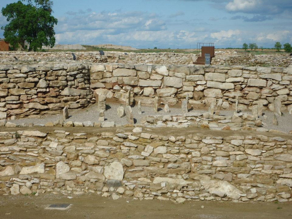 Sharp vertical stones placed at the perimeter of the fortress in order to strengthen its defensive capacity.